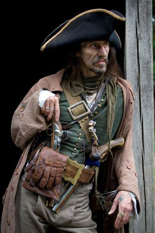 Tony Rotherham as Sam Gregory